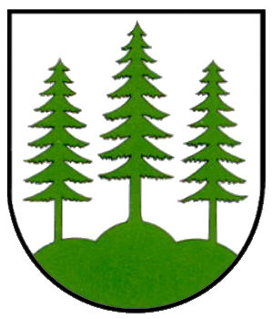 Coat of arms of Dossenbach in Schwörstadt